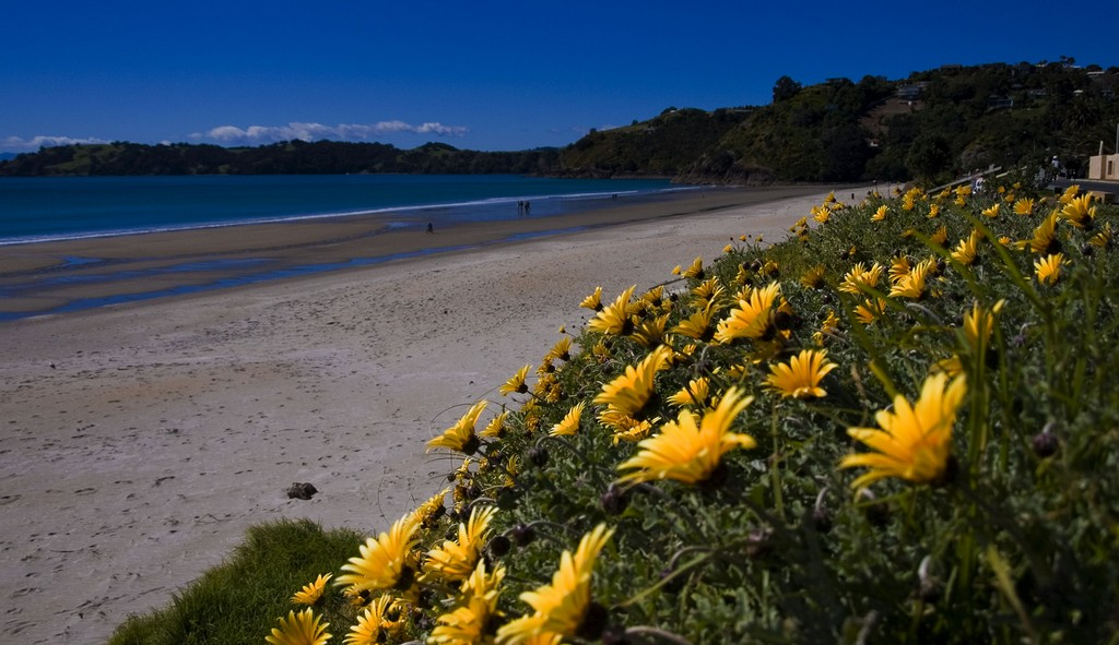 Onetangi Beach, Waiheke Island, New Zealand.